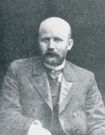 Viktor Radakov